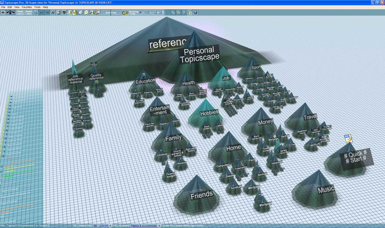 3D-mindmap-from-Topicscape-software